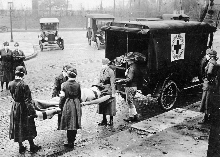 With masks over their faces, members of the American Red Cross remove a victim of the Spanish Flu from a house at Etzel and Page Avenues, St. Louis, Missouri.